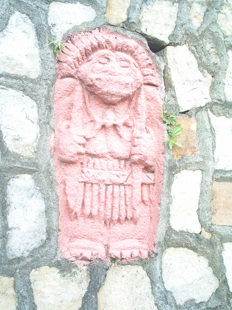 Figure in San Antonio